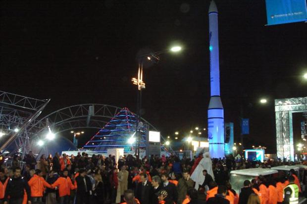 The Pyramid, The Tronador II rocket in the pedestrian entrance to Tecnopolis